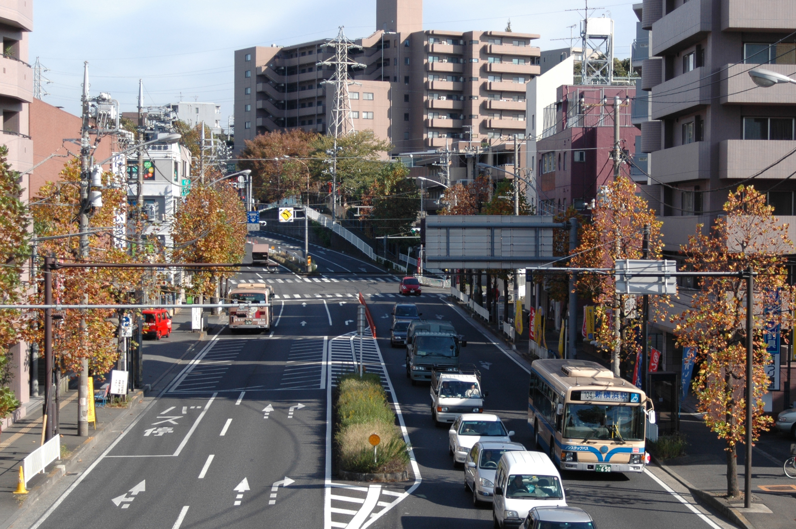 Yokohama municipal bus no.104 line, near the Kohoku Ward Office, Yokohama, Japan